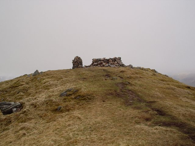 Summit cairn and windbreak on Mullach Fraoch-choire The windbreak turned out to be handy on what became a wet windy half hour.